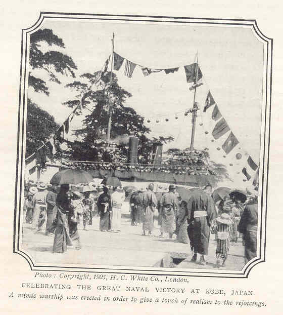 Celebrating the great naval victory at Kobe, japan